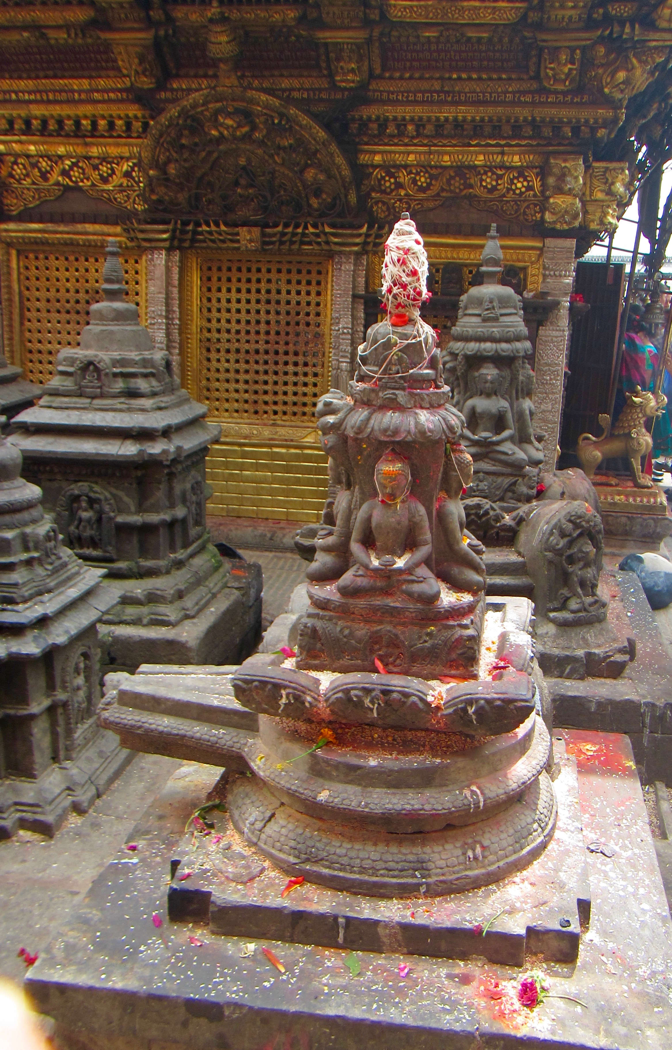 Vajrayana tradition Swambhunath temple in Nepal, one of the most sacred sites for Buddhist Newar people features numerous Shiva linga-yoni within its premises where four Buddhas in different meditative poses are carved on the Siva linga along with many additional Buddhist deities.